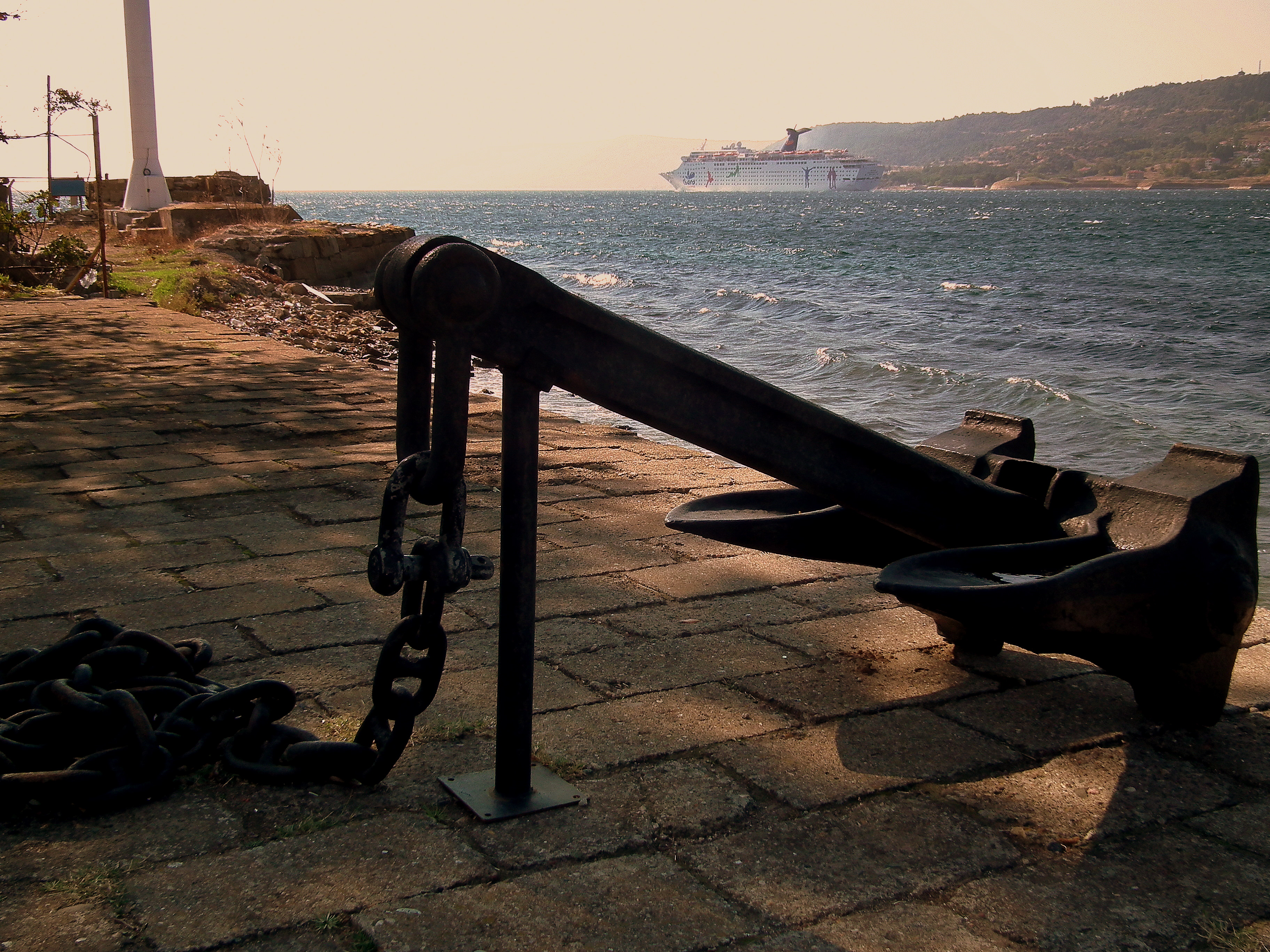 CANAKKALE NAVAL MUSEUM WESTERN TURKEY OCT 2011